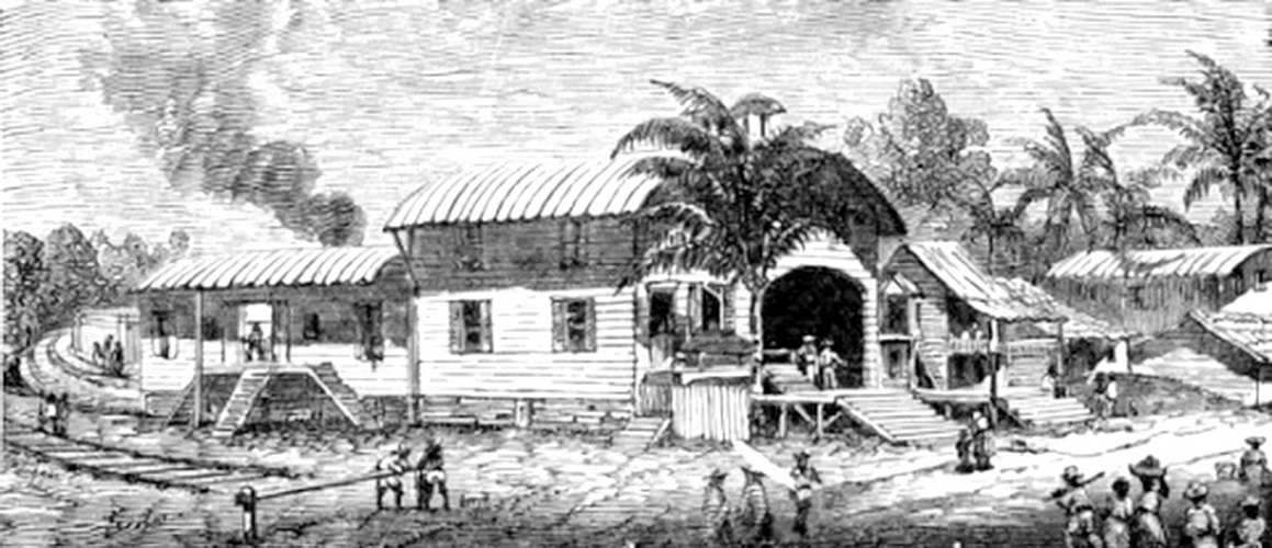 The name of the illustration is the same as the caption in this book about Panama and it's History (c) 1916.